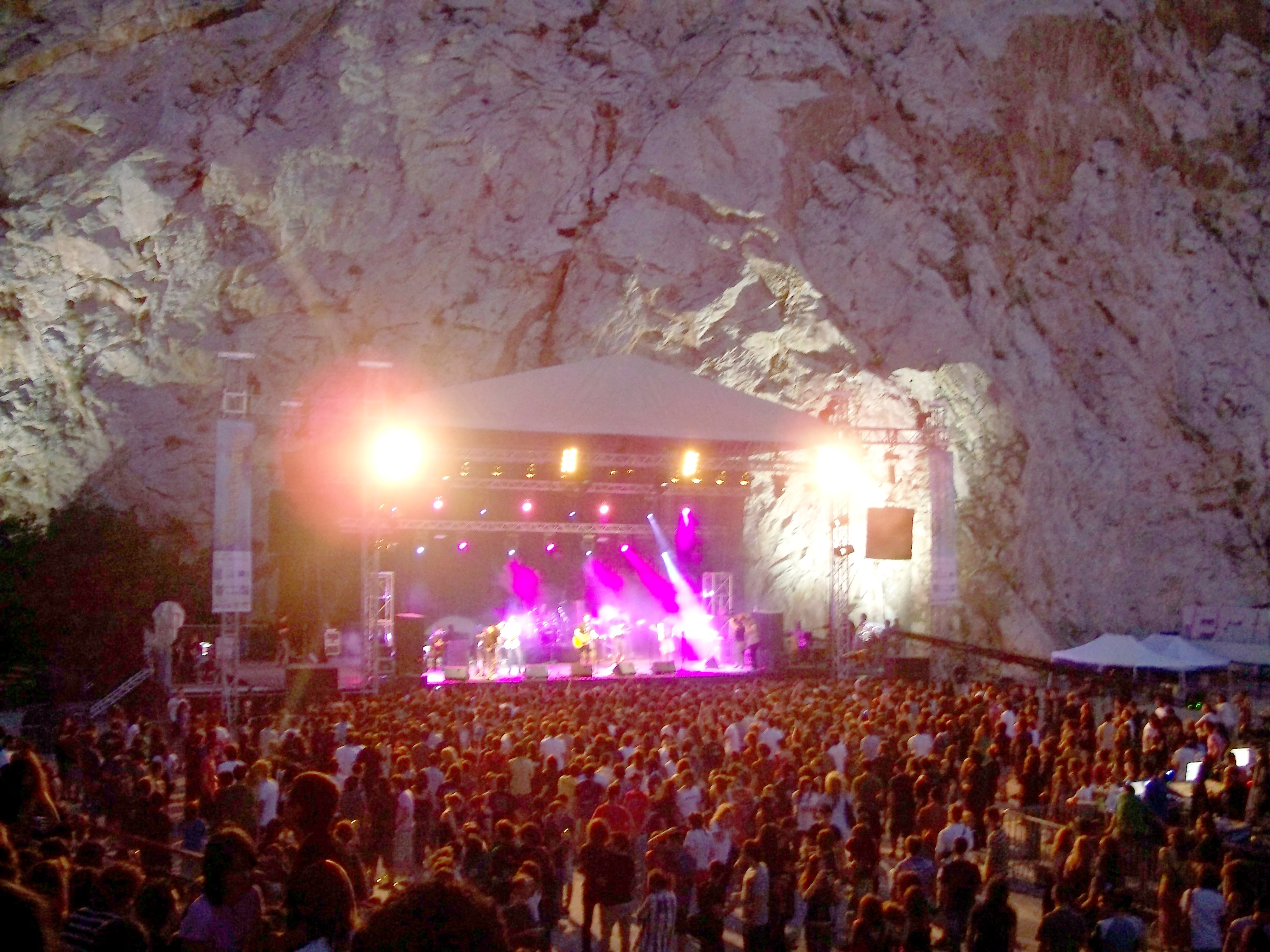 The "Theatro Vraxon" (Theater of the Rocks) at Vyronas, Athens, Greece. Took that name because it is at the site of a former quarry